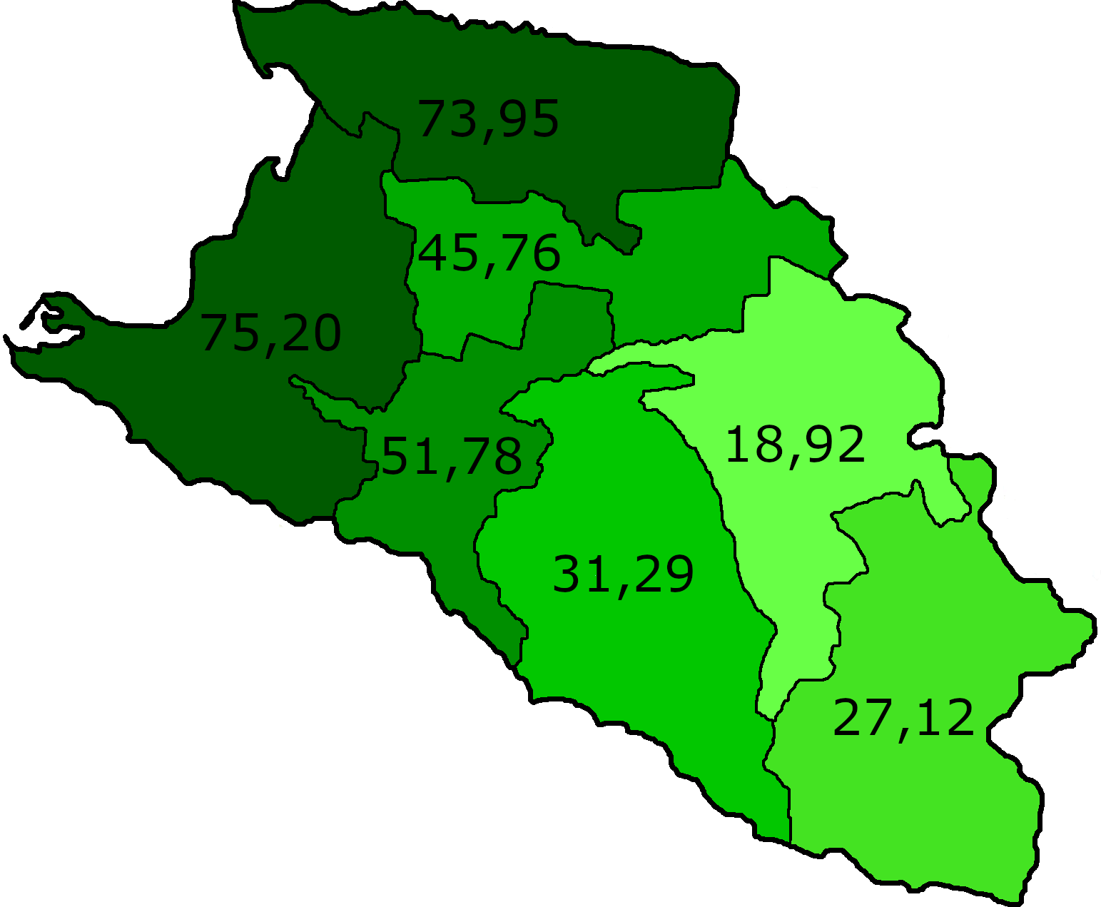 Ukrainian language in Kuban Oblast according to 1897 census.